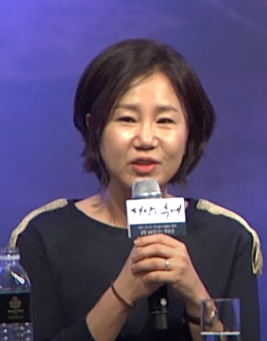 Kim Eun-sook during Descendants of the Sun press conference in 2016.